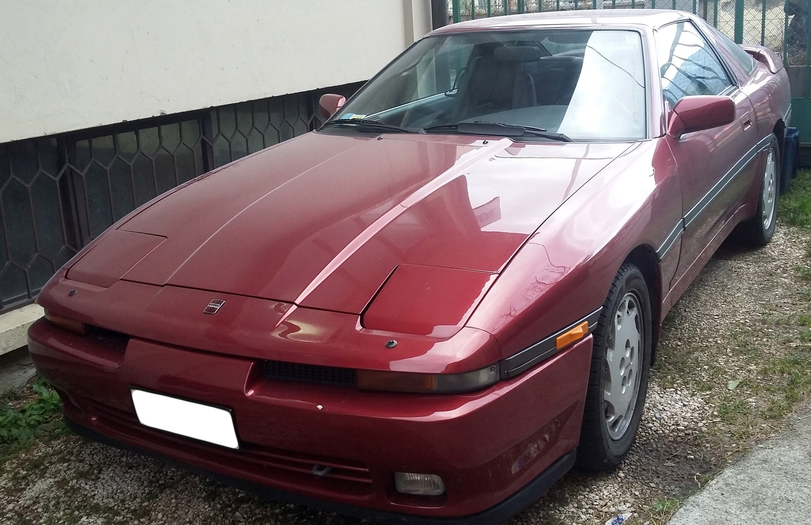 1986-1992 Toyota Supra, front